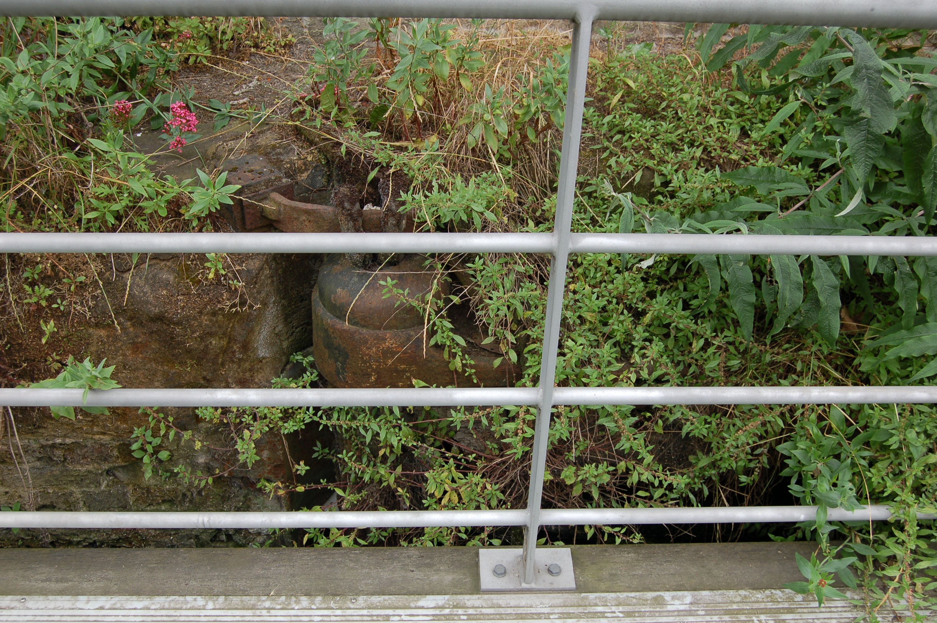 Own work, please attribute. K B Thompson Bromley Stop Lock